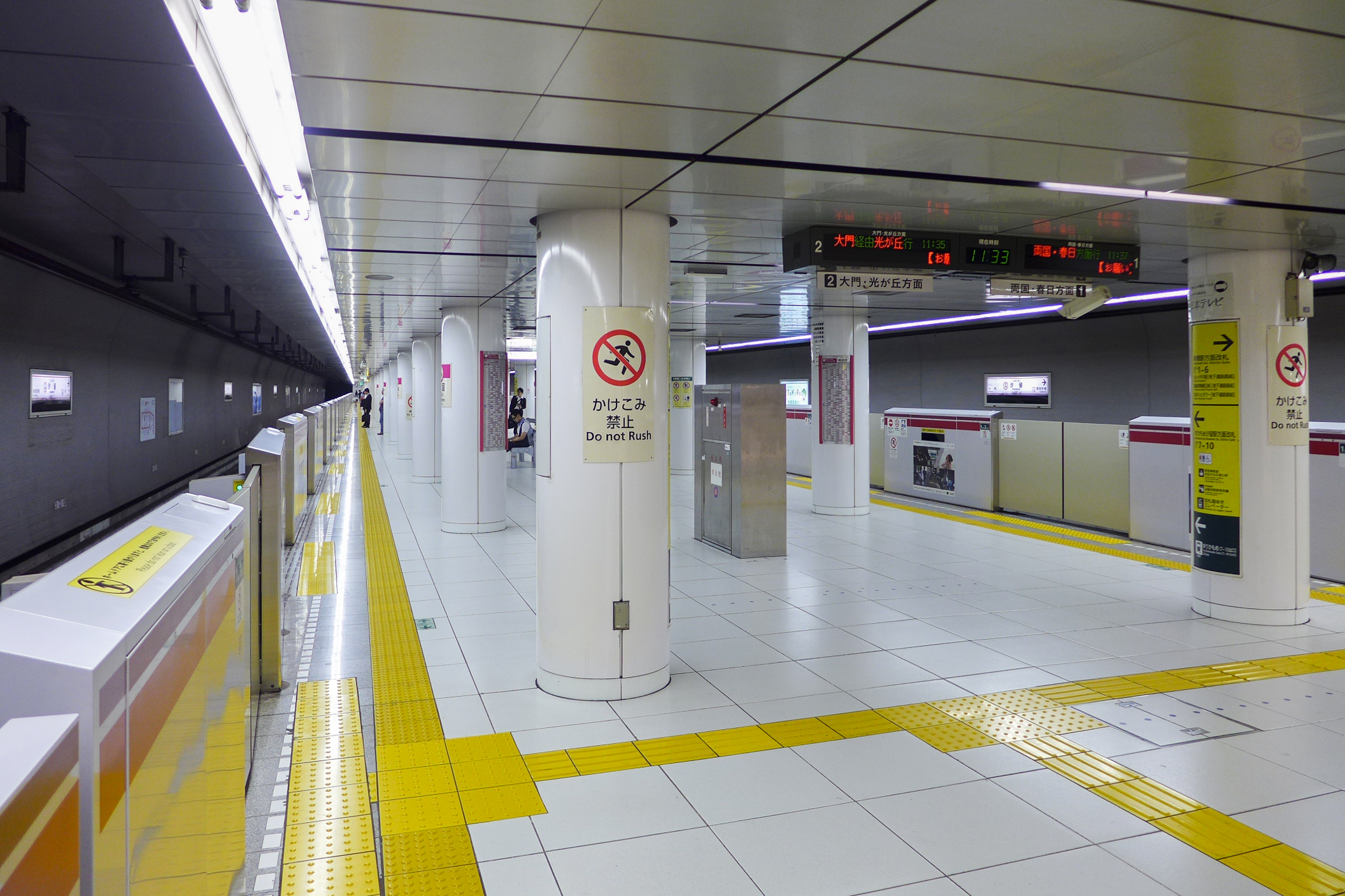 Shiodome Station Oedo Line Platform